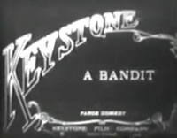 Stills Bandit 1913.